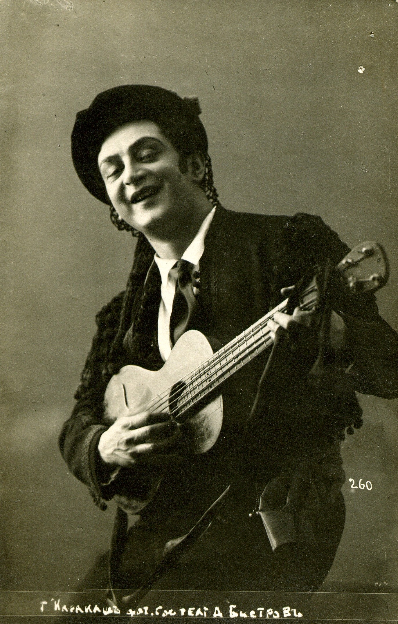 Russian baritone Mikhail Karakash (1887-1937) as Figaro in Rossini's Il barbiere di Siviglia, one of his celebrated roles.